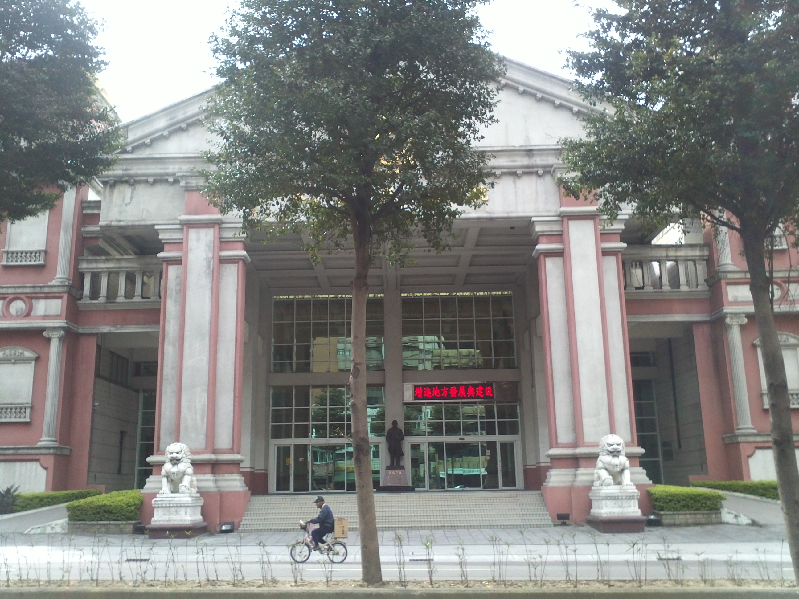 Taoyuan County Council, Taoyuan City, Taoyuan County, Taiwan